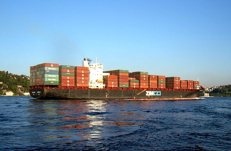 A container vessel in Istanbul